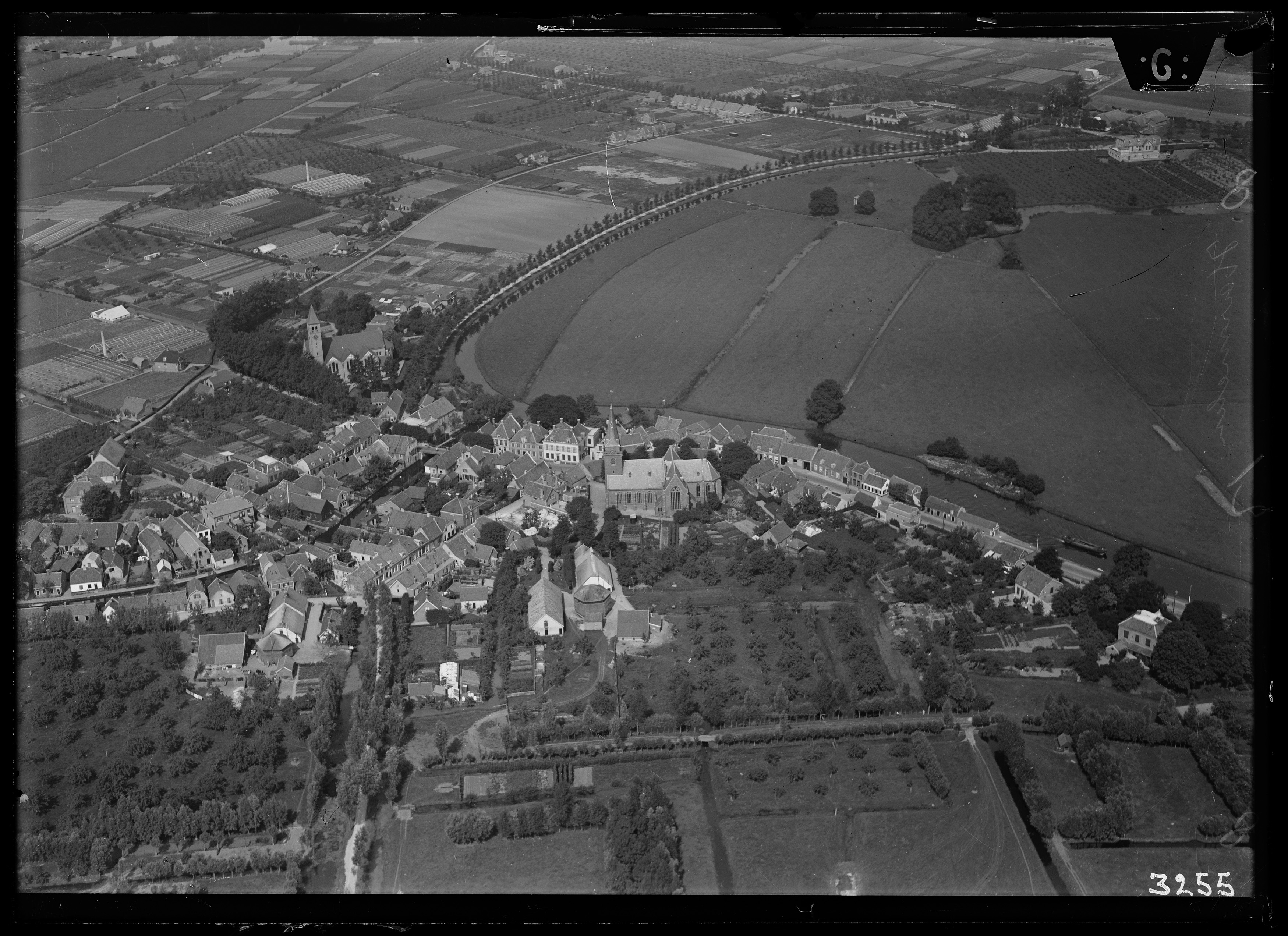 Aerial photograph of Harmelen, The Netherlands